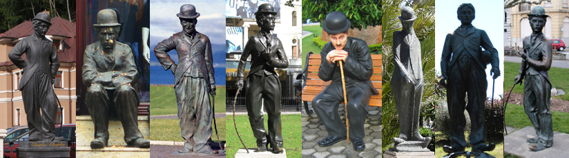 A collage of Charlie Chaplin statues from around the world. Statue locations, left to right: Trenčianske Teplice, Slovakia Chełmża, Poland Waterville, Ireland London (Leicester Square), United Kingdom Ramoji Film City, Hyderabad, India Alassio, Italy Barcelona, Spain Vevey, Switzerland